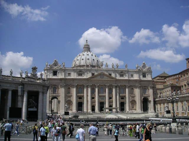 St. Peter's Basilica, Facade